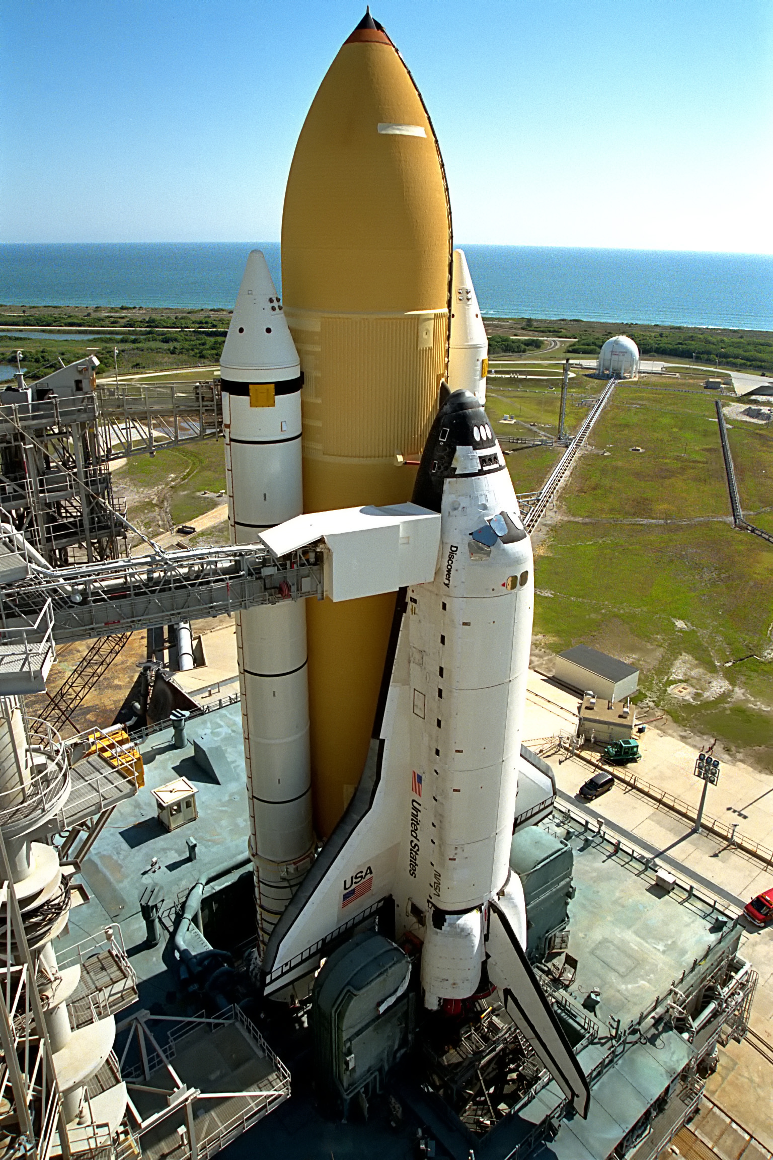 Space Shuttle Discovery sits atop a mobile launcher platform at Launch Complex 39A, Kennedy Space Center, on April 27, 1998, ready to launch for STS-91.